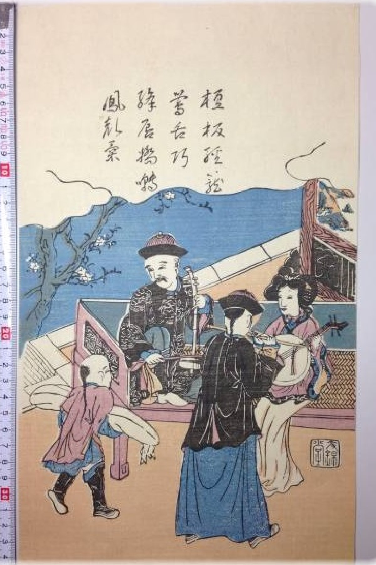 Chinese at Nagasaki